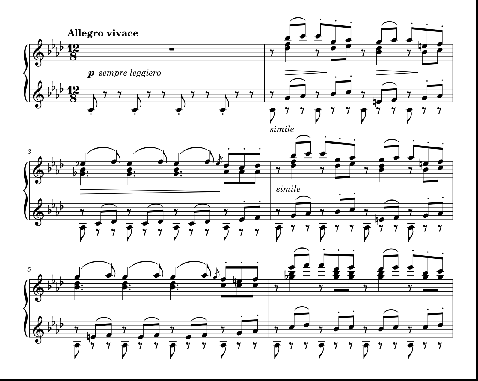 A better engraved version than the original (I have not uploaded as a revision because my account is too new)